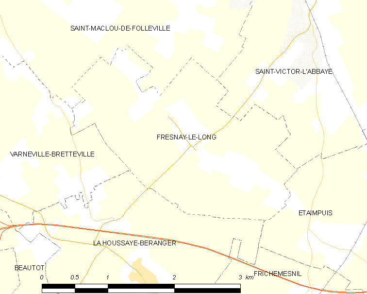 Map of French municipality Fresnay-le-Long